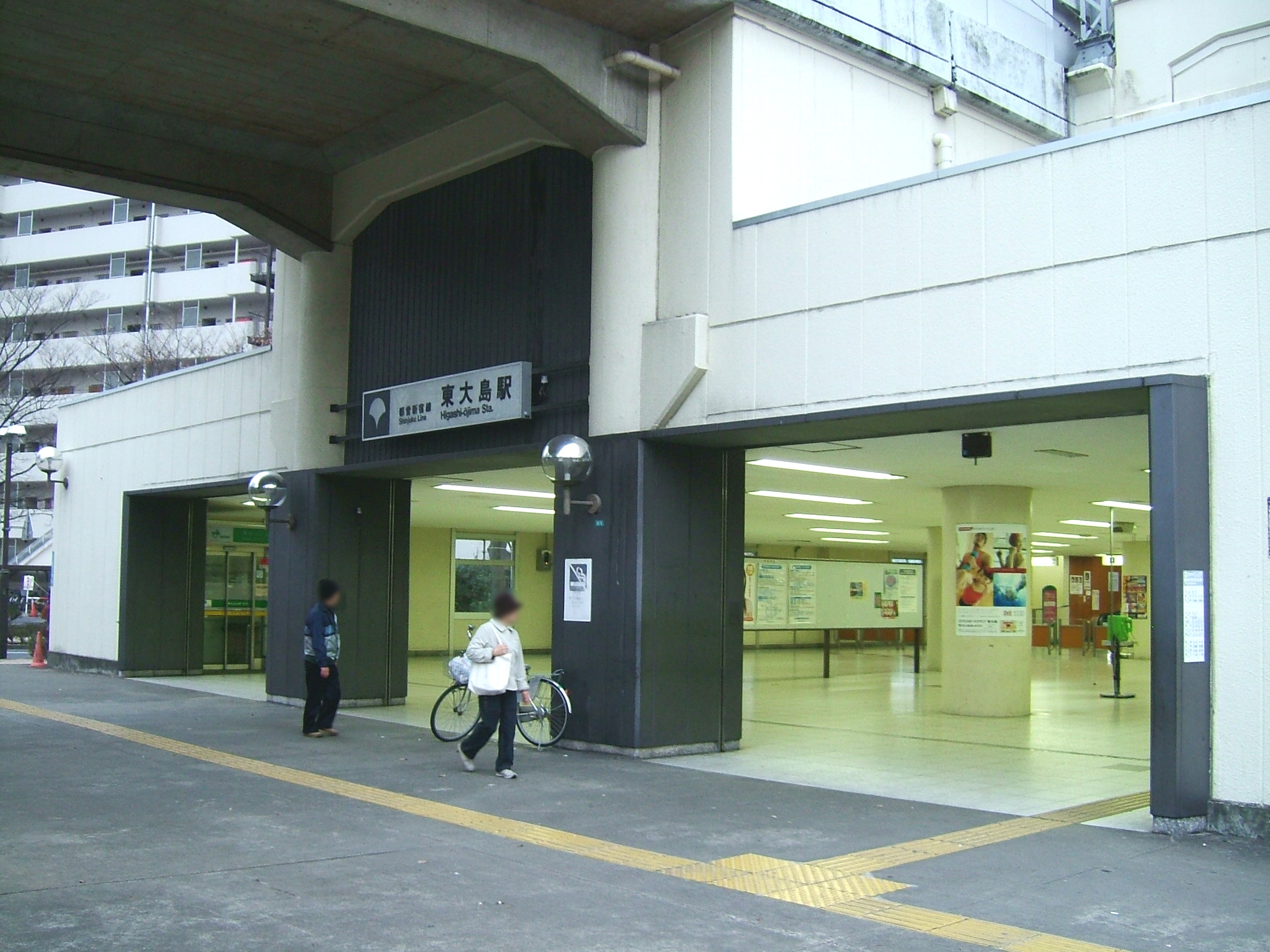 The east side entrance to Higashi-Ōjima Station(Toei Shinjuku Line)